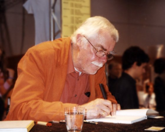 F. W. Bernstein, German writer and caricaturist. Picture taken at the Frankfurt Bookfair in 2005.